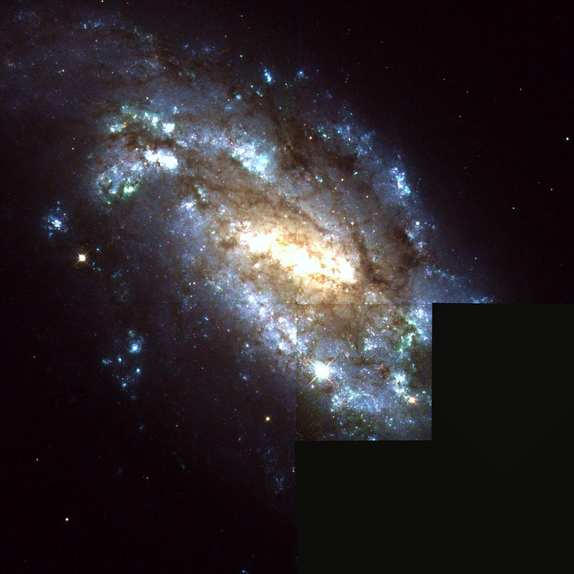 NGC 1559 galaxy by Hubble space telescope